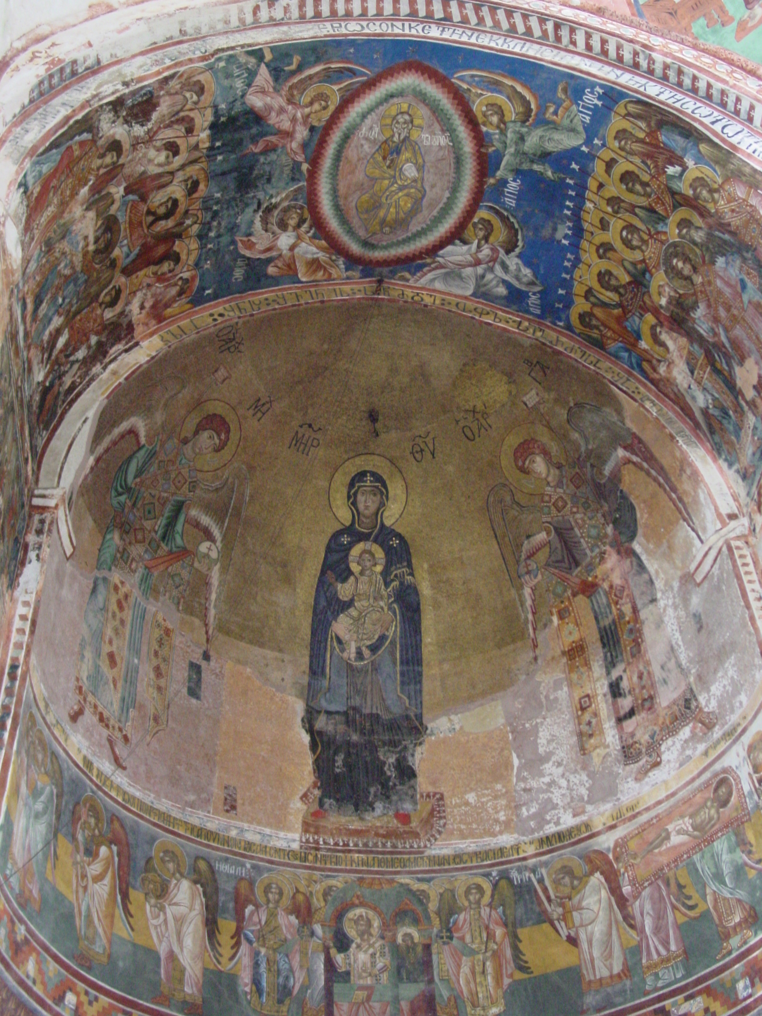 Inside of the Gelati monastery, parts of the mosaic are still intact.